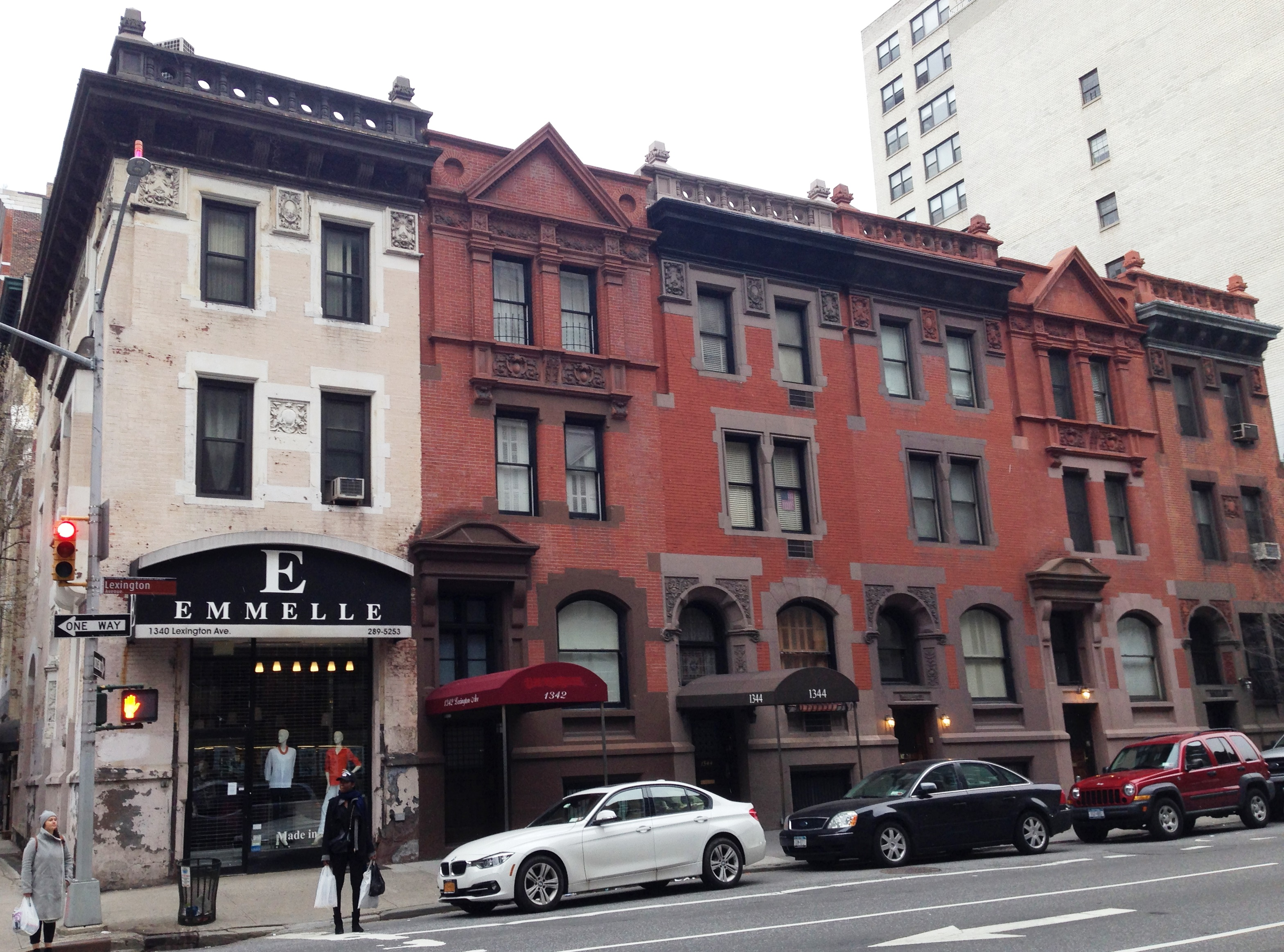 The Hardenberg/Rhinelander Historic District is a small historic district in the Carnegie Hill neighborhood of the Upper East Side of Manhattan, New York City created by the New York City Landmarks Preservation Commission in 1998. It consists of six Northern Renaissance Revival buildings along Lexington Avenue between 89th and 90th Streets constructed in 1888-89, and one on East 89th Street. Six of the brick, brownstone and terra cotta buildings are rowhouses, and one is an apartment building, referred to as "French Flats" at the time. The name of the district derives from the architect, Henry J. Hardenbergh, and the owner and developer of the properties, the Estate of William C. Rhinelander. The Rhinelanders were a prominent family in the area.